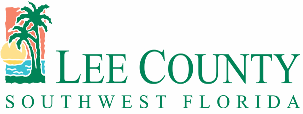 Seal of Lee County, Florida.